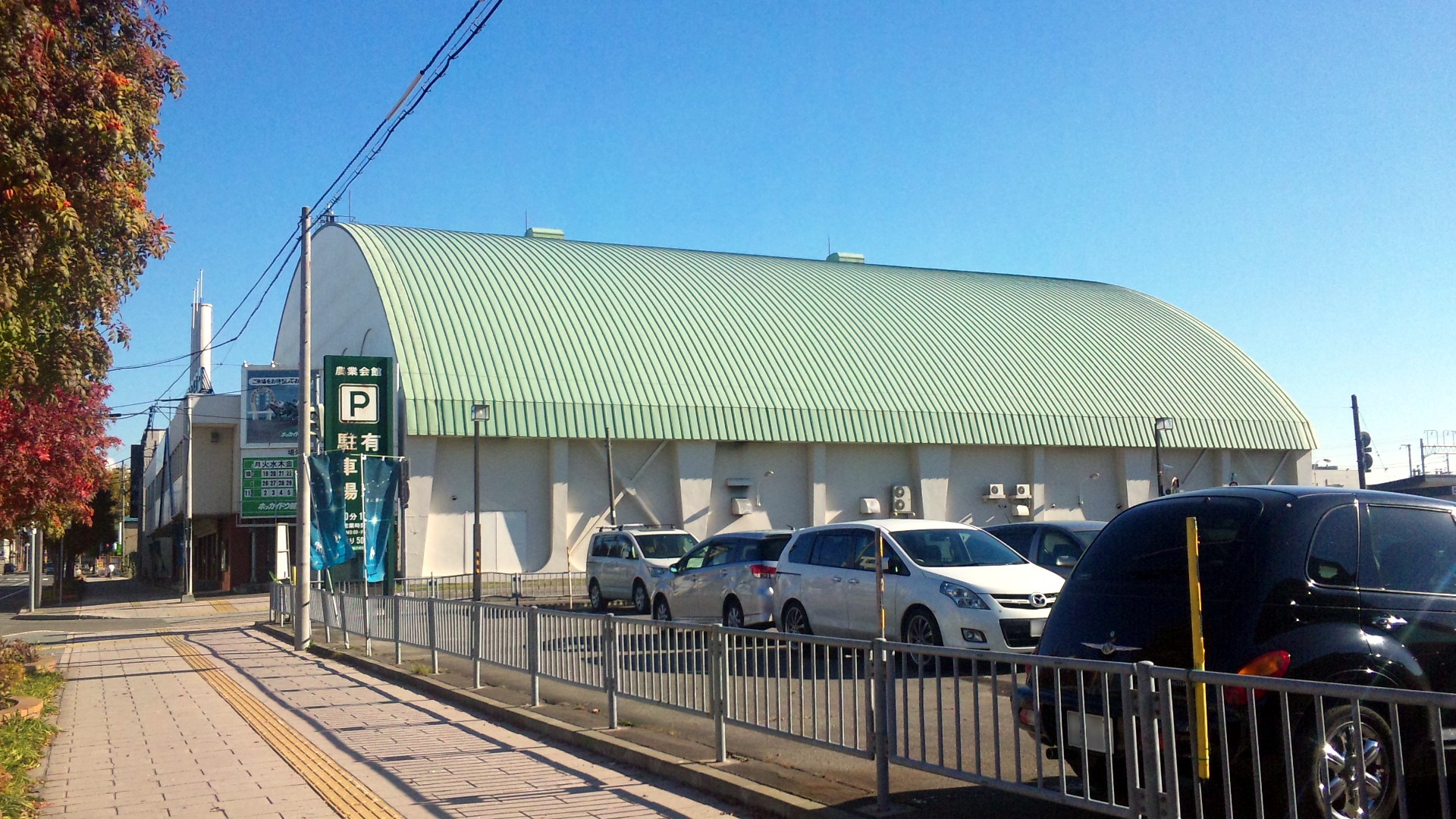 Asahikawa racing center in Hokkaido, Japan